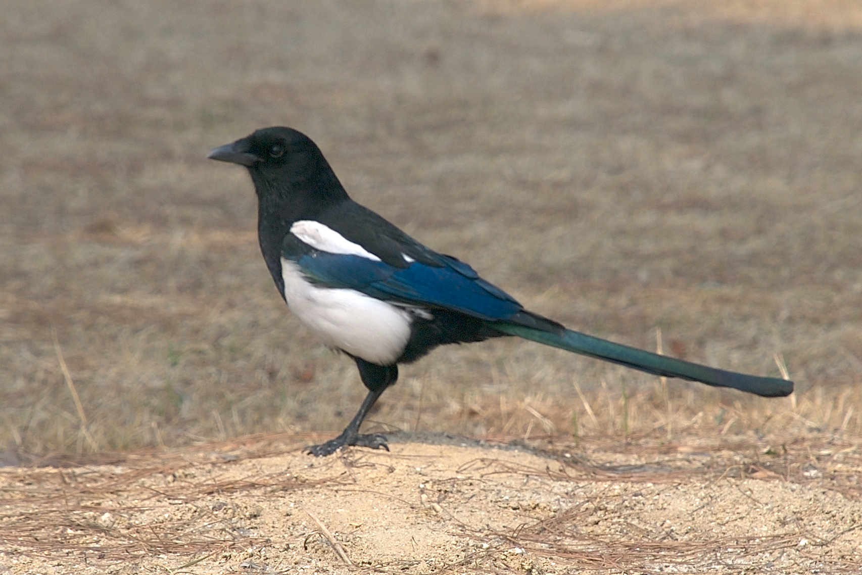 Picture of Oriental Magpie Pica serica in Daejeon, South Korea near the Daejeon City Museum of Art.